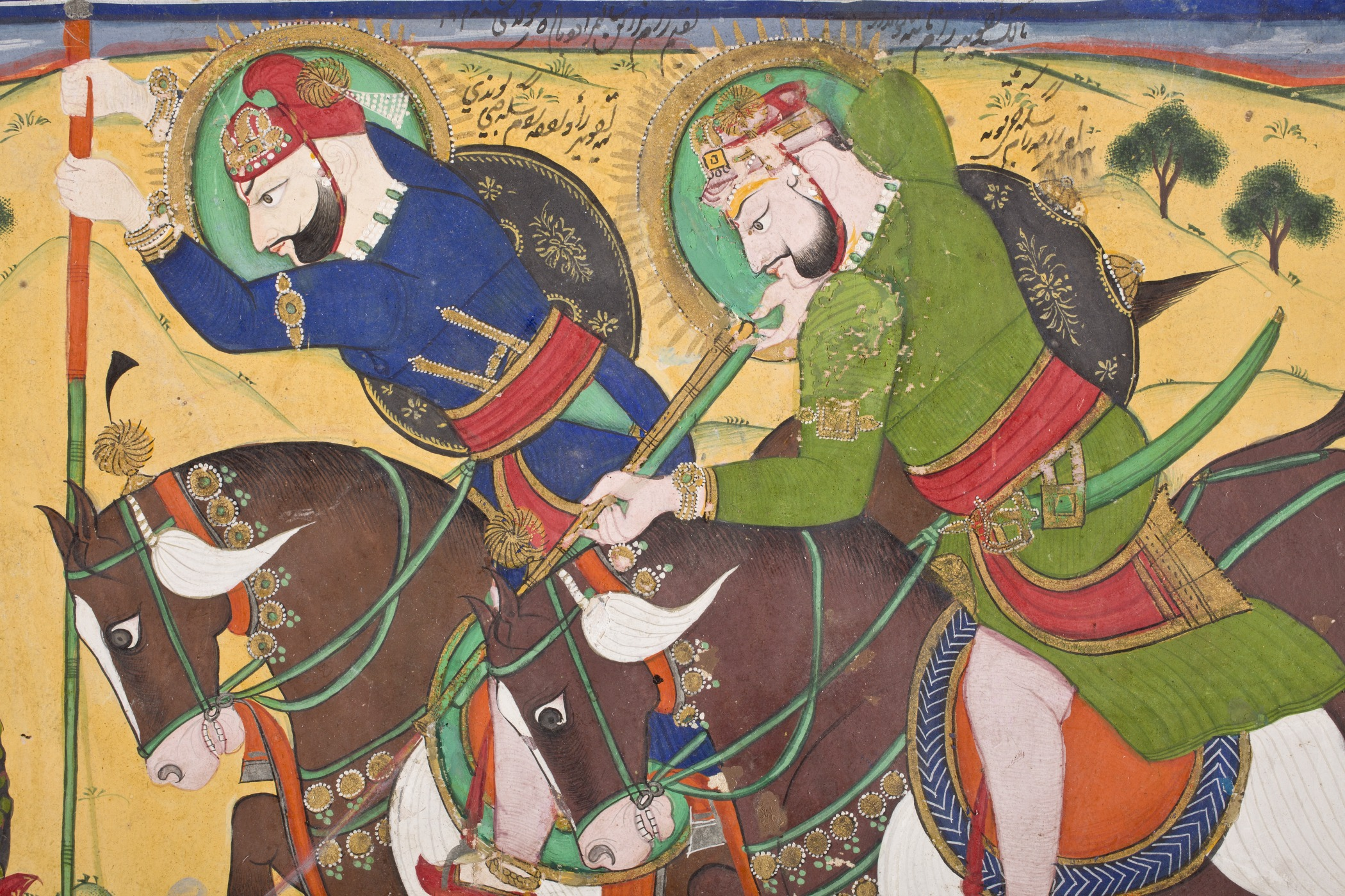 India, Rajasthan, Kota, circa 1880 Drawings; watercolors Opaque watercolor, gold, and ink on paper Image: 9 1/2 x 12 3/4 in. (24.13 x 32.38 cm); Sheet: 10 x 13 3/4 in. (25.4 x 34.92 cm) Anonymous gift (M.75.19) South and Southeast Asian Art